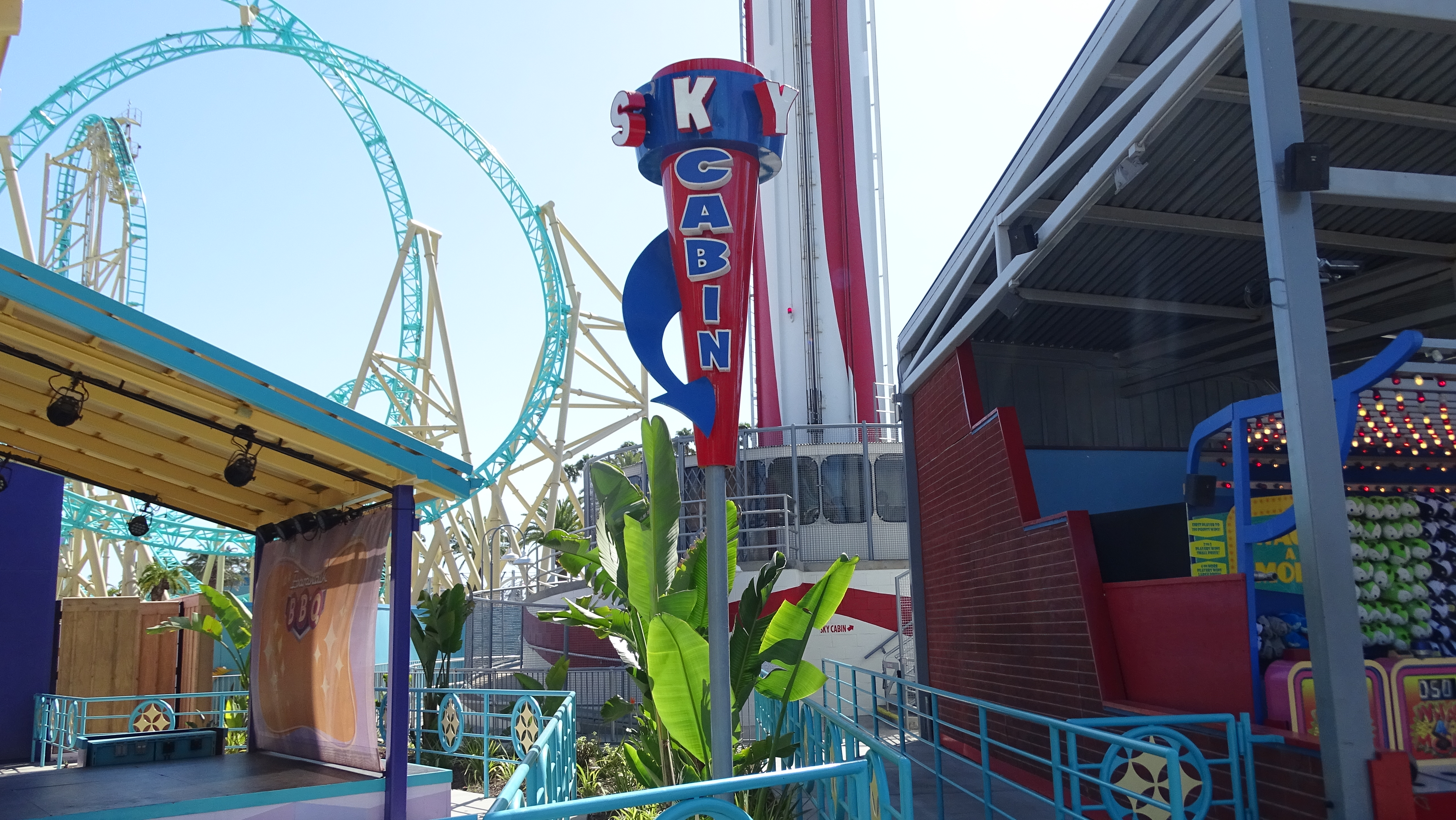 Sky Cabin